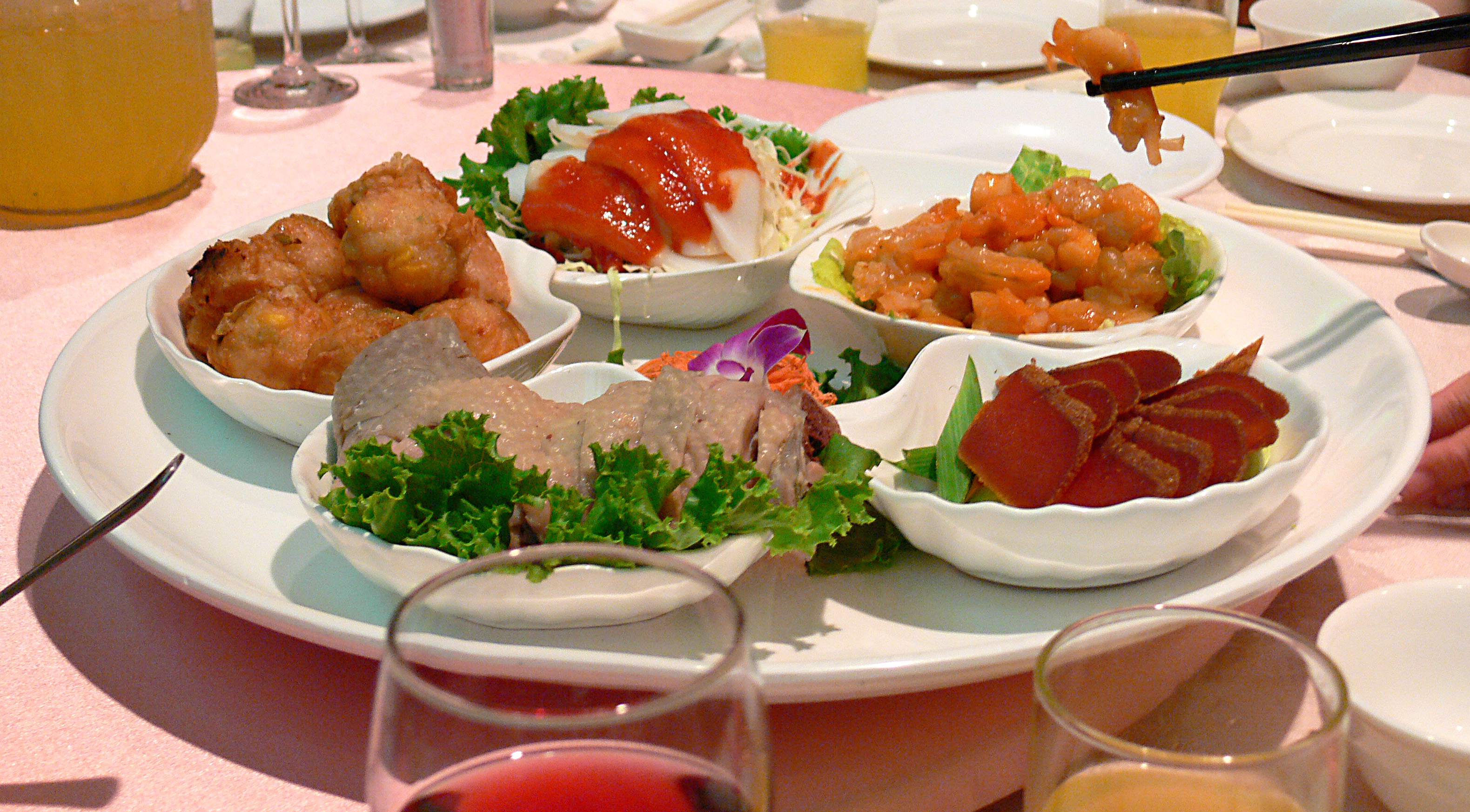 Taiwanese cuisine at a wedding. Starting from the chopsticks on the right and going clockwise: Shrimp, mullet Karasumi slices, goose, shrimp-and-seafood-paste balls, and sliced geoduck.